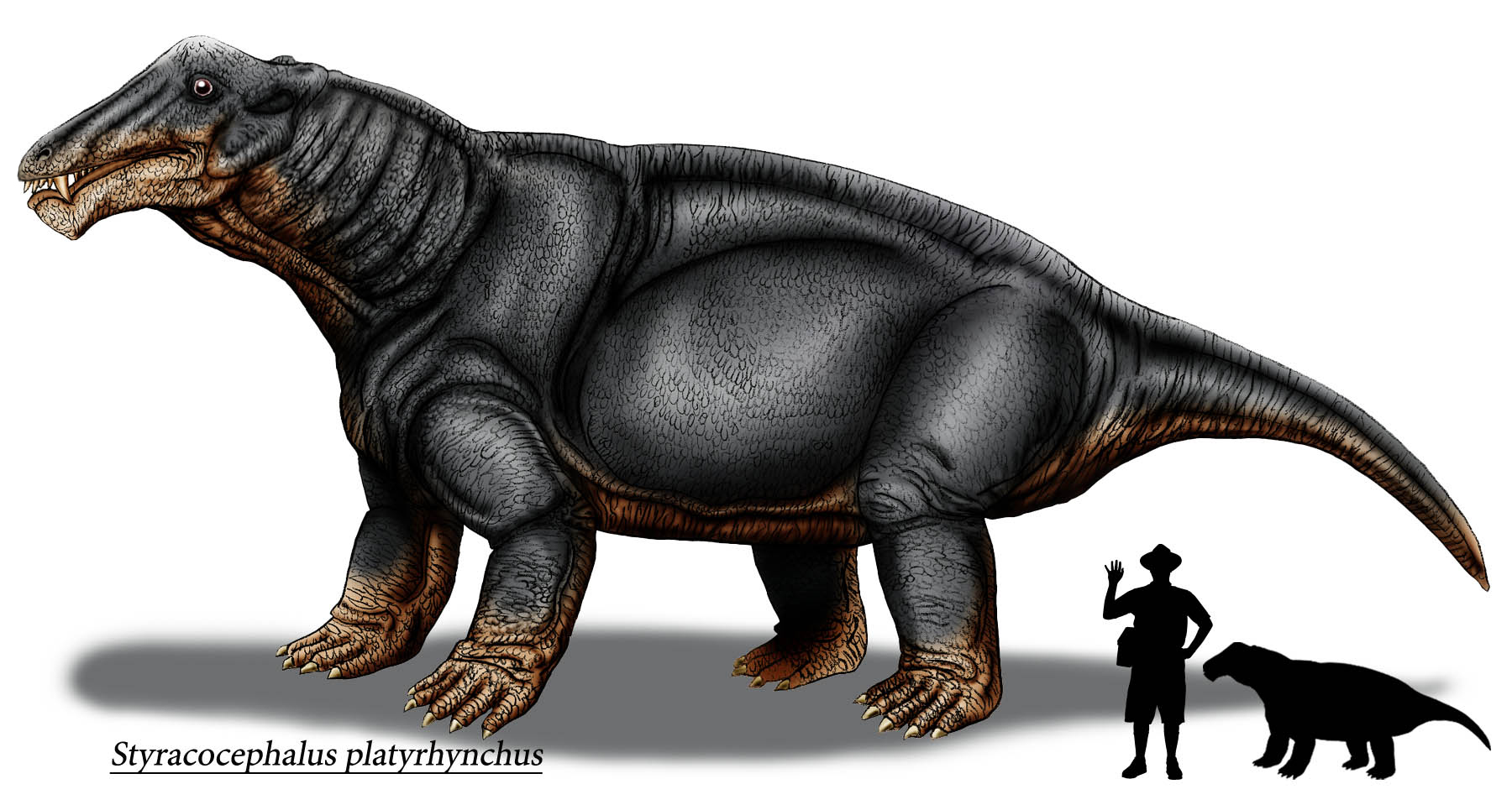 Styracocephalus